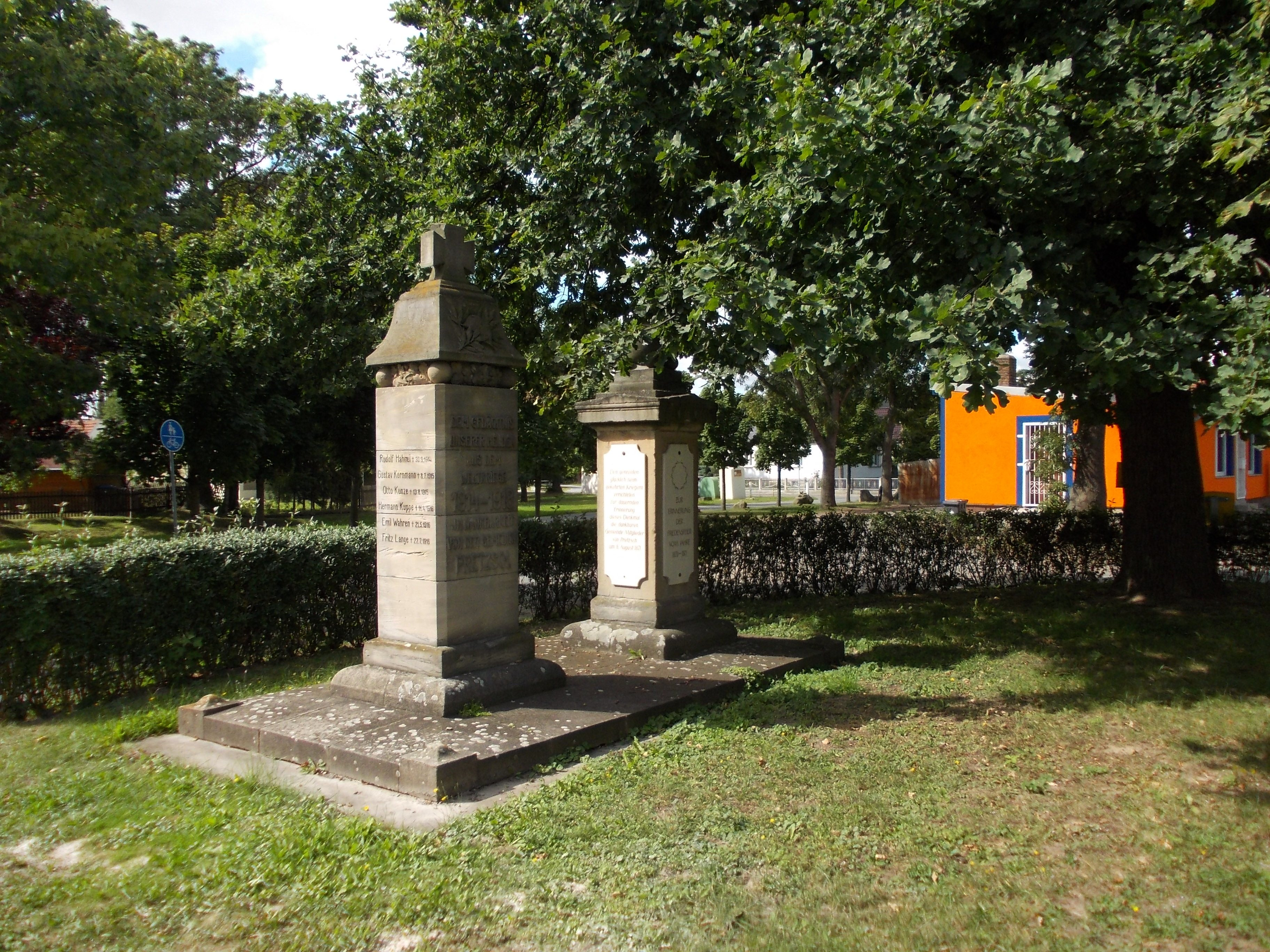 War memorials in Pretzsch (Meineweh, district of Burgenlandkreis, Saxony-Anhalt)